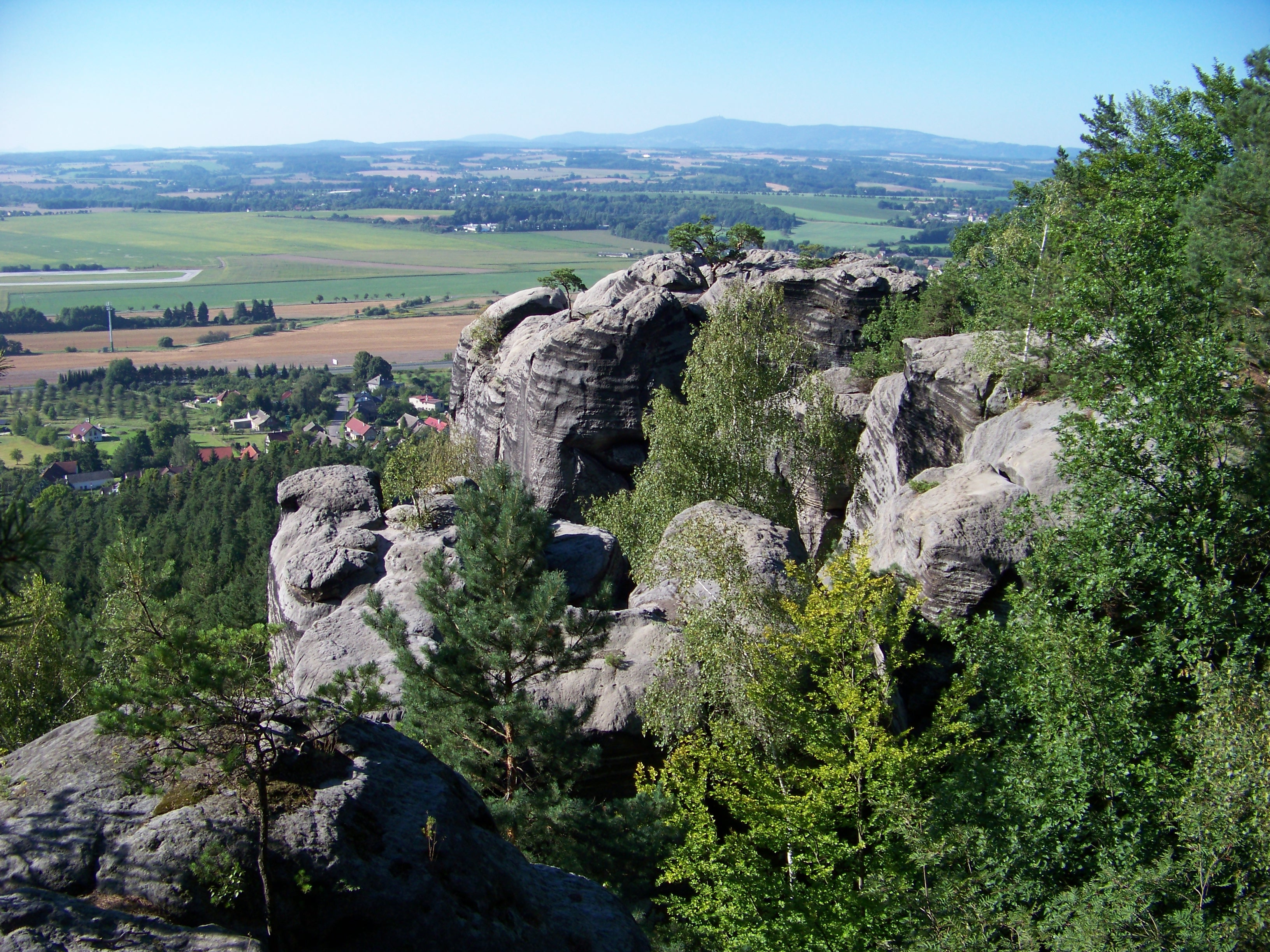 Mnichovo Hradiště-Olšina, Mladá Boleslav District, Central Bohemian Region, the Czech Republic. Příhrazy Rocks. - OpenStreetMap(Info)